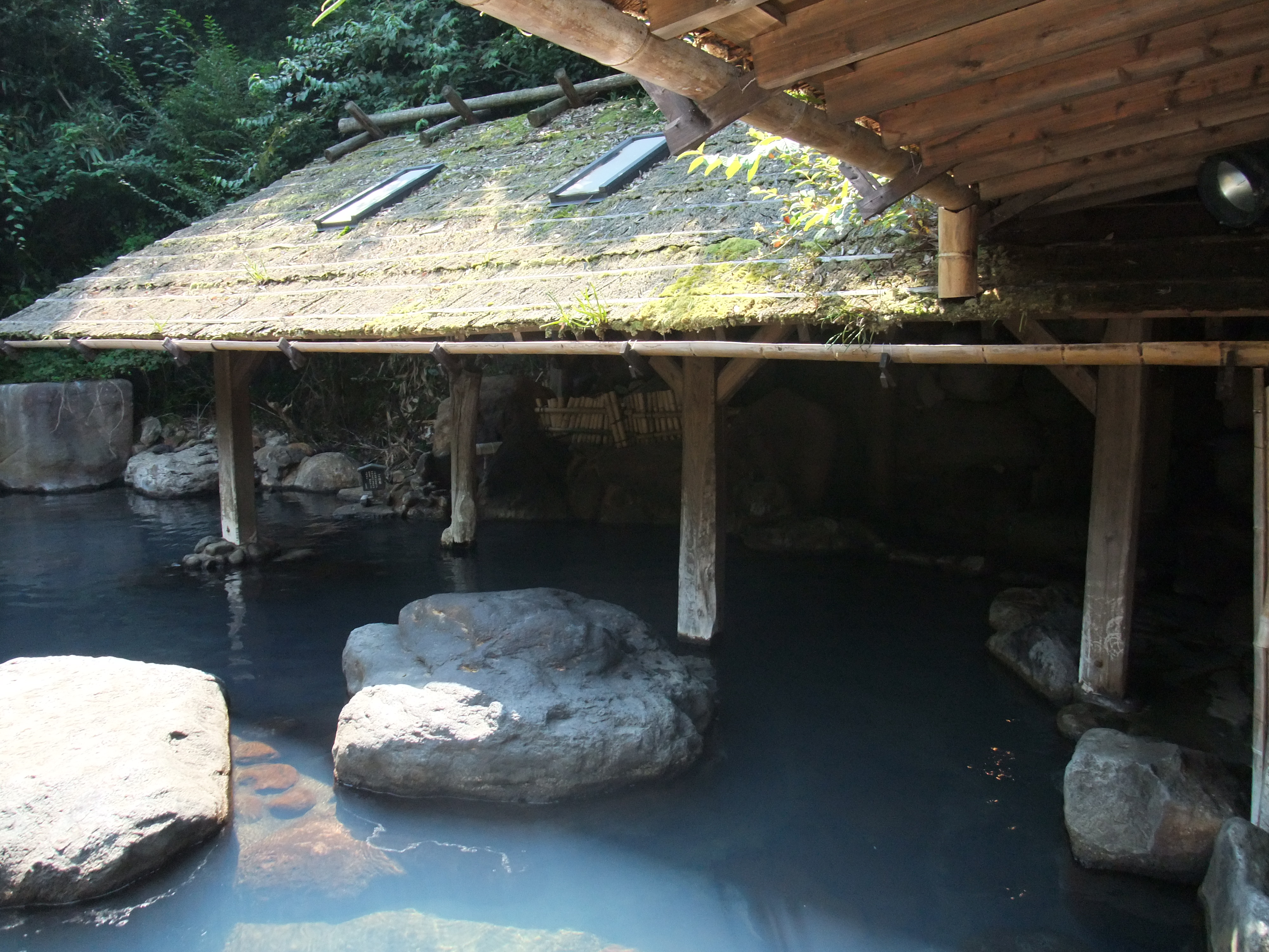 Kurokawa onsen rotenburo in Kyushu, Japan.